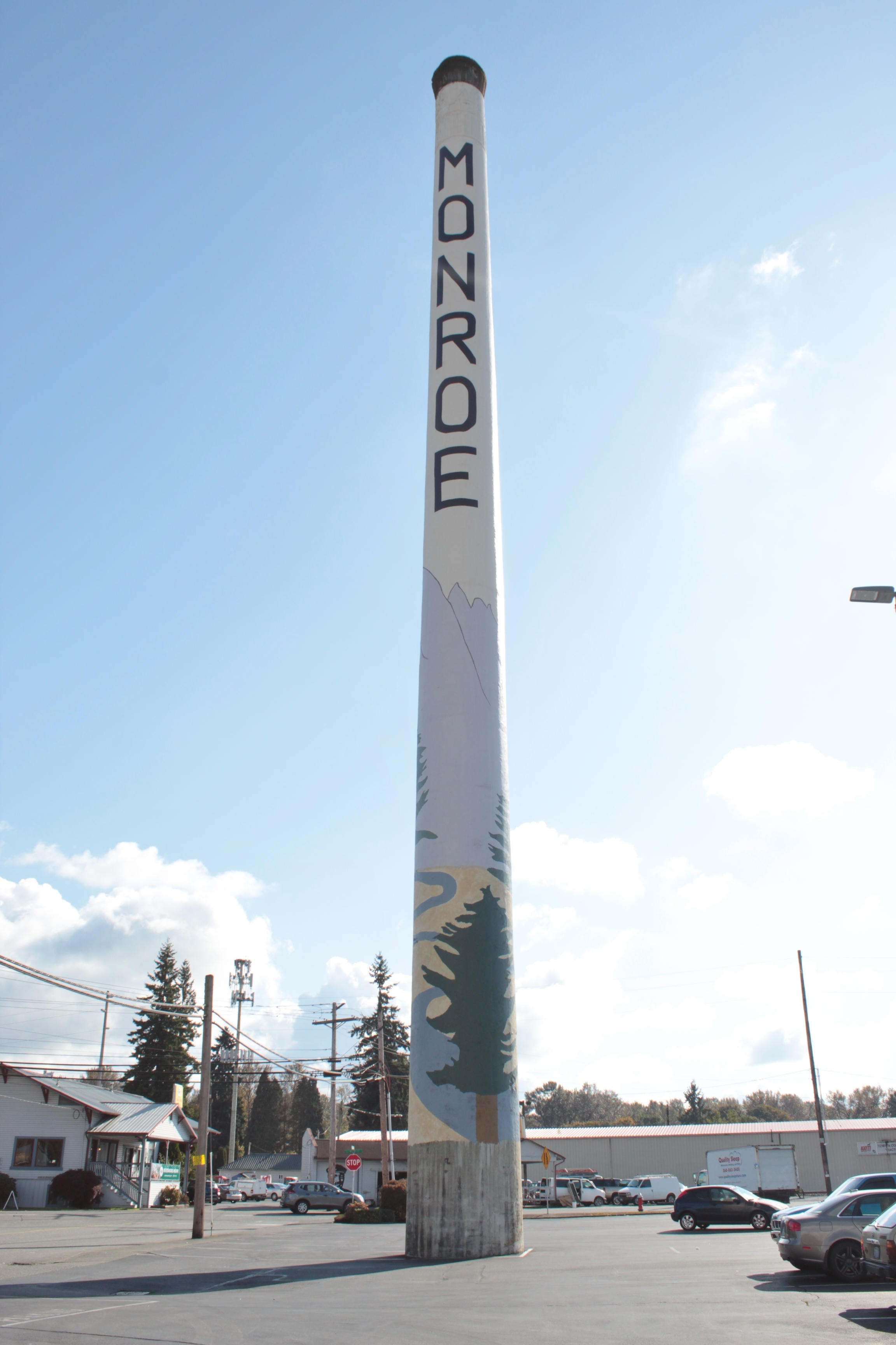 The Carnation Condensery Stack is a freestanding steamstack that served a condensed milk plant in Monroe, Washington until 1928.